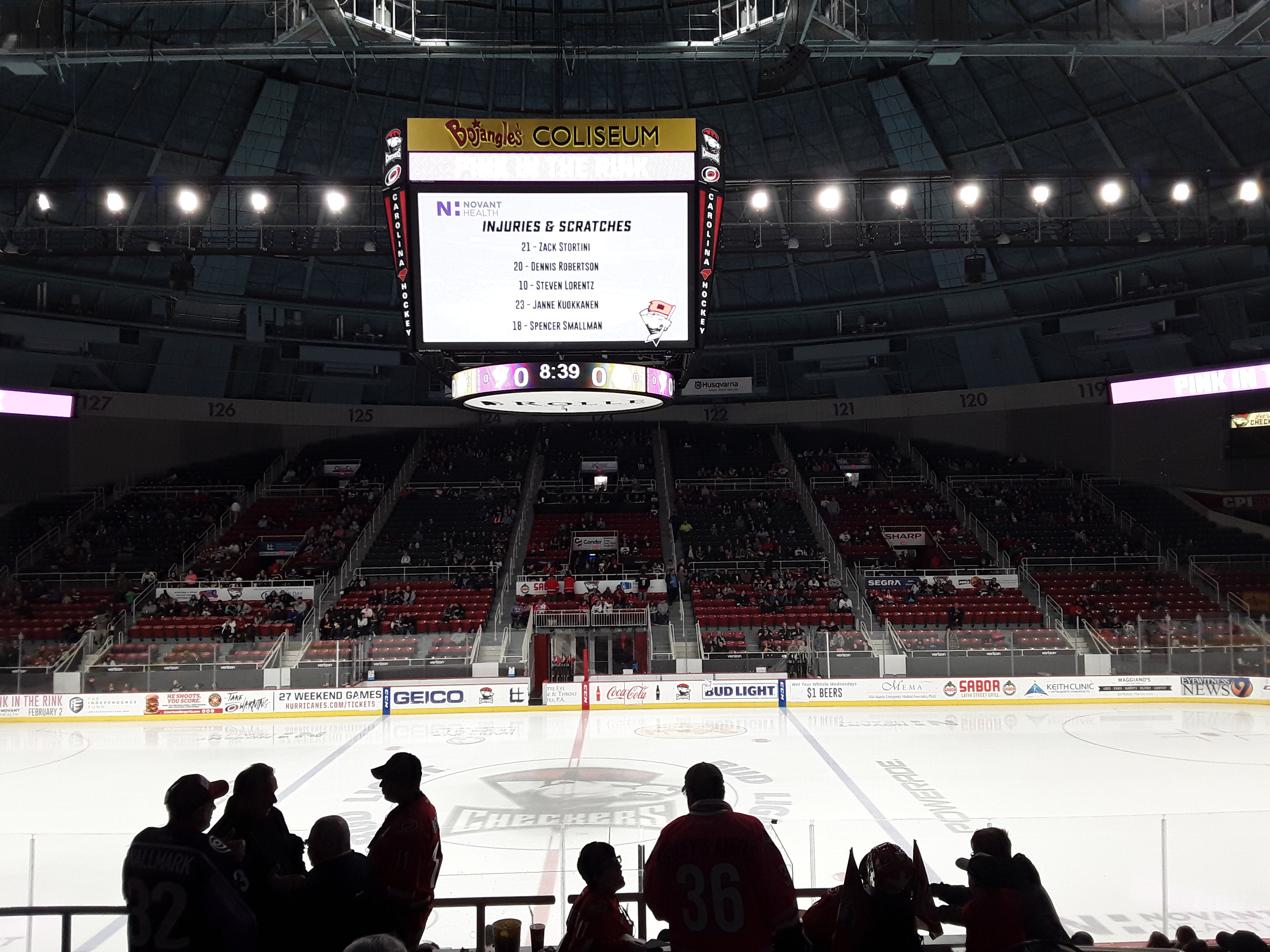 Bojangles' Coliseum in Charlotte, North Carolina before a Charlotte Checkers game